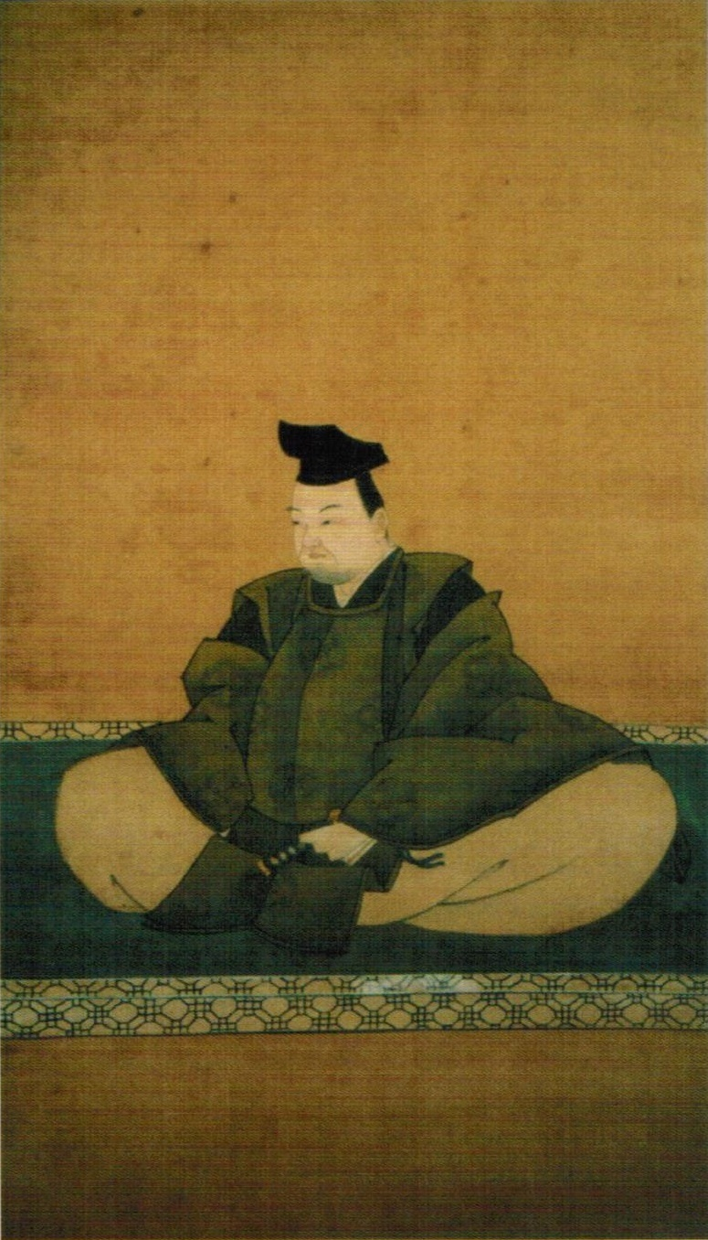 Portrait of Kiso Yoshimasa, painted in Edo period, a collection of Tōzenji Temple in Matsudo, Chiba, Japan.